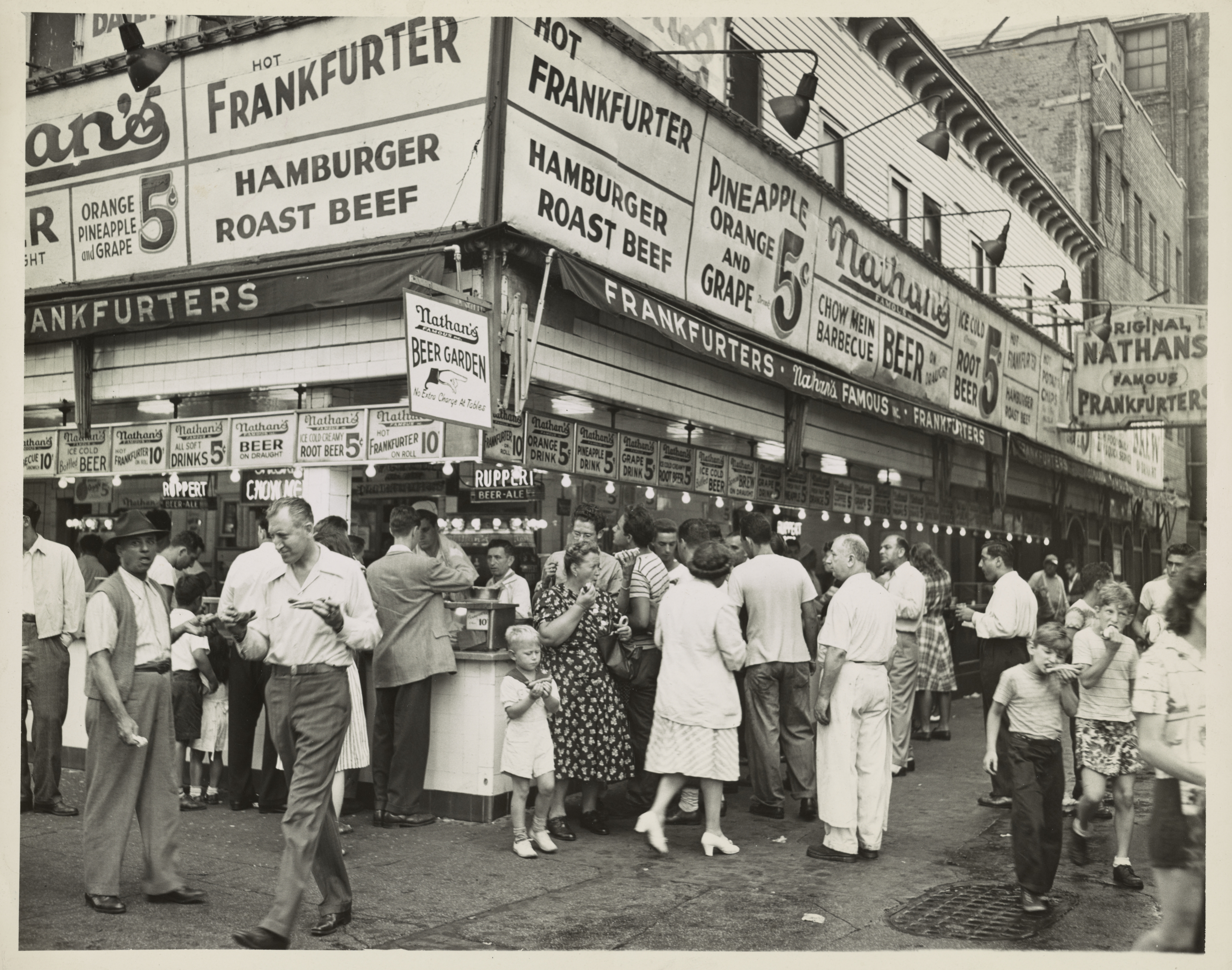 Photograph showing a crowded street corner with customers ordering and eating from Nathan's Famous food stand.